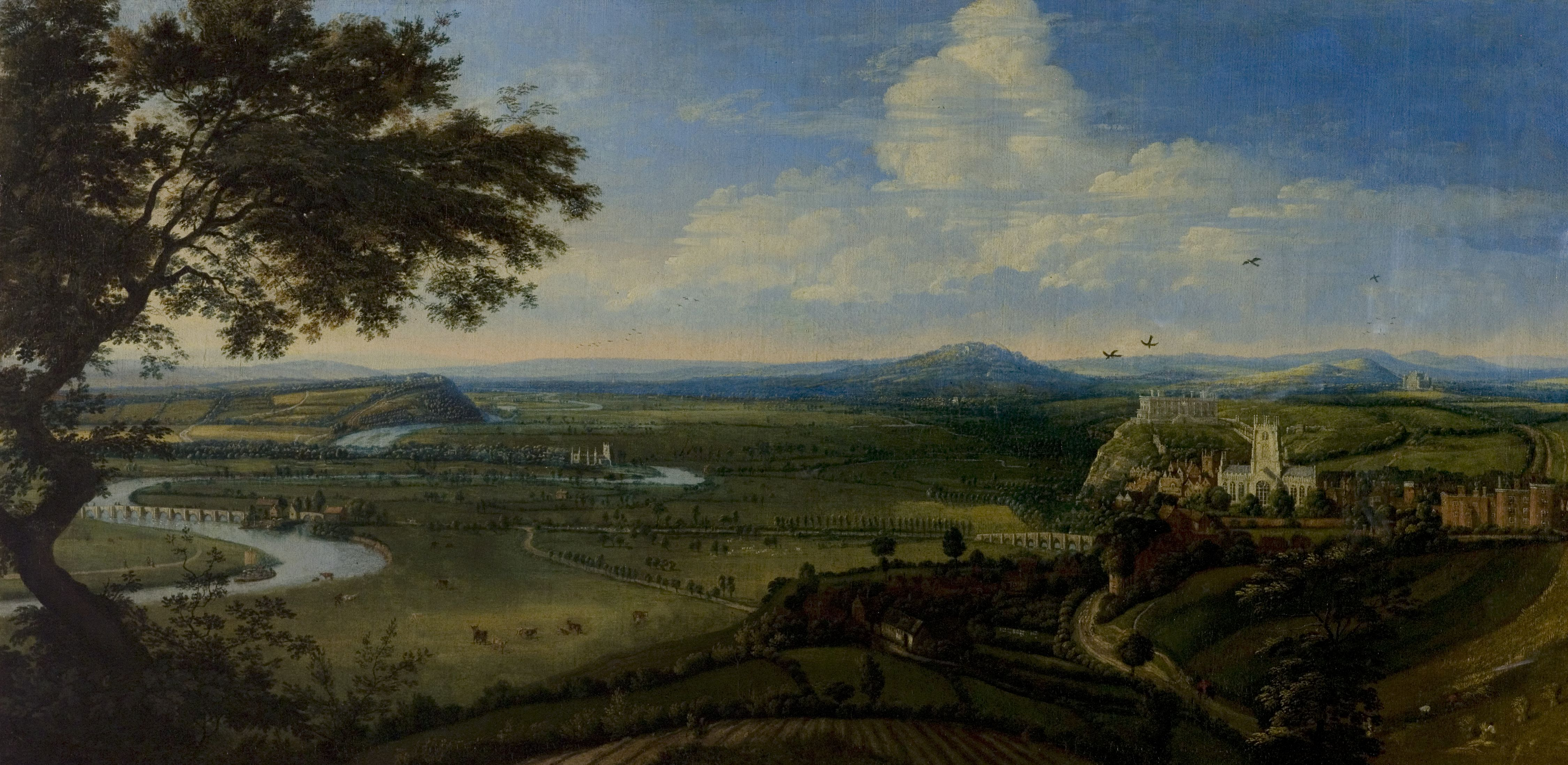 "View of Nottingham from the East" (ca.1695), oil on canvas, by Jan Siberechts